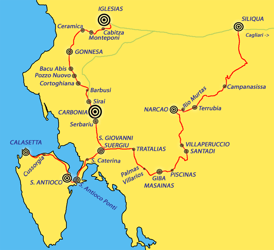 Map of the Ferrovie Meridionali Sarde railways, closed in 1974